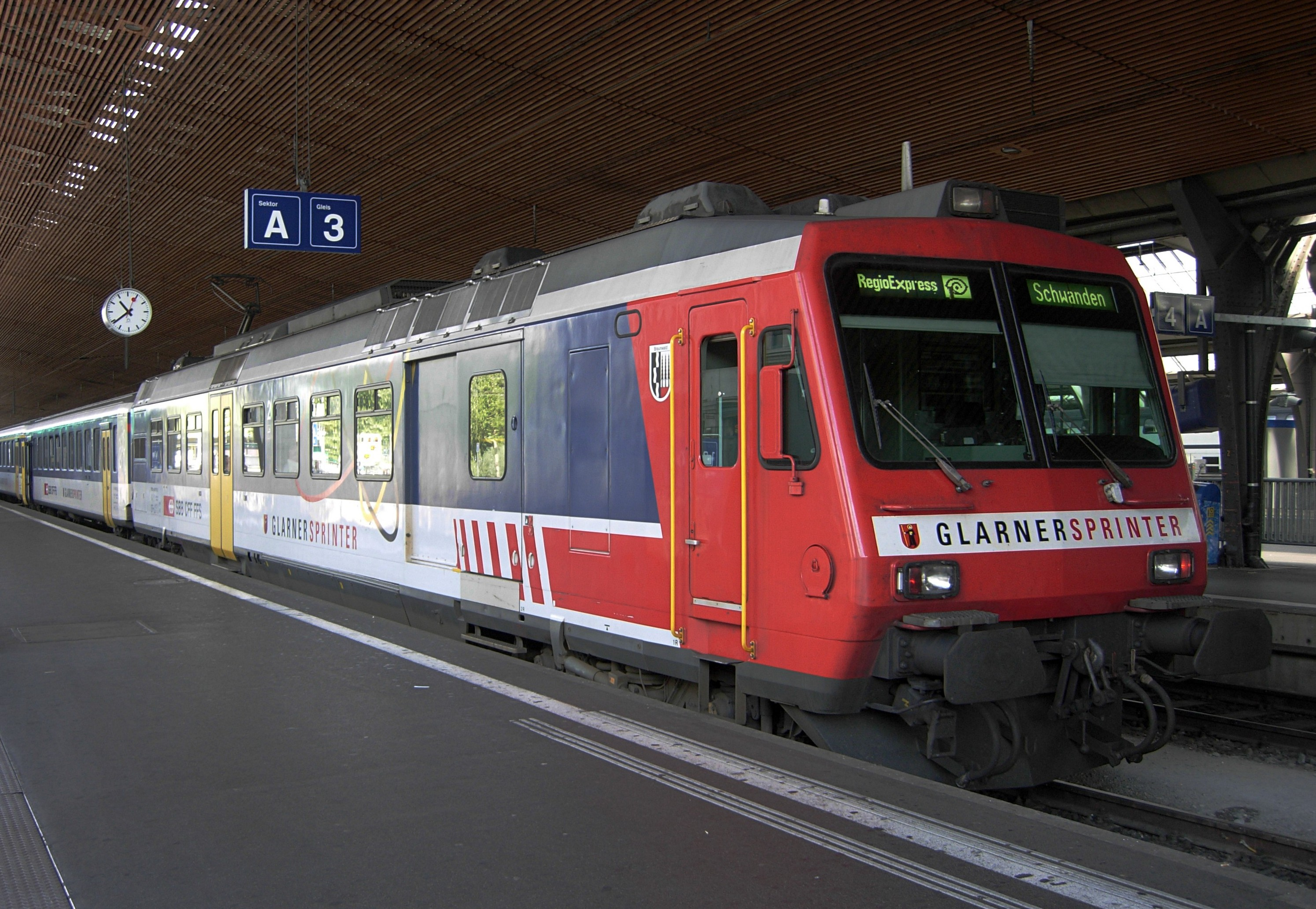 RBDe 560 of the SBB about to leave the Zürich Hauptbahnhof on the Glarner Sprinter service